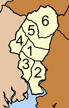 Map of Thap Put district, Phang Nga province, Thailand, with the communes (tambon) numbered. Thap Put (ทับปุด) Ma Rui (มะรุ่ย) Bo Saen (บ่อแสน) Tham Thonglang (ถ้ำทองหลาง) Khok Charoen (โคกเจริญ) Bang Riang (บางเหรียง)